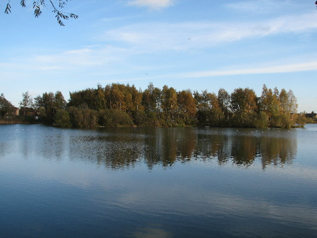 Balderton Lake. Former gravel pit that at one time used to be twice the size. But like most areas half has been infilled for new housing.